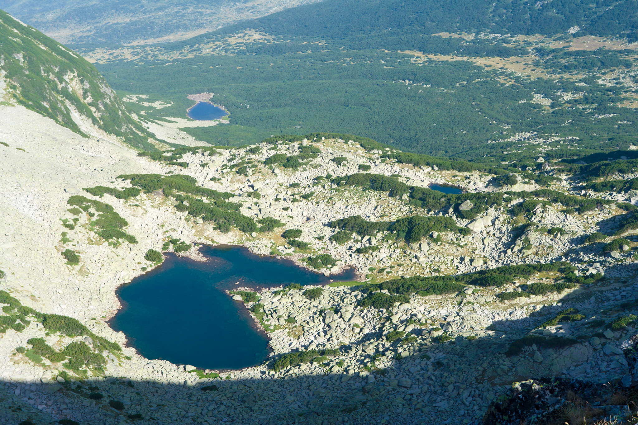 Chairski lakes, Pirin mountain, Bulgaria